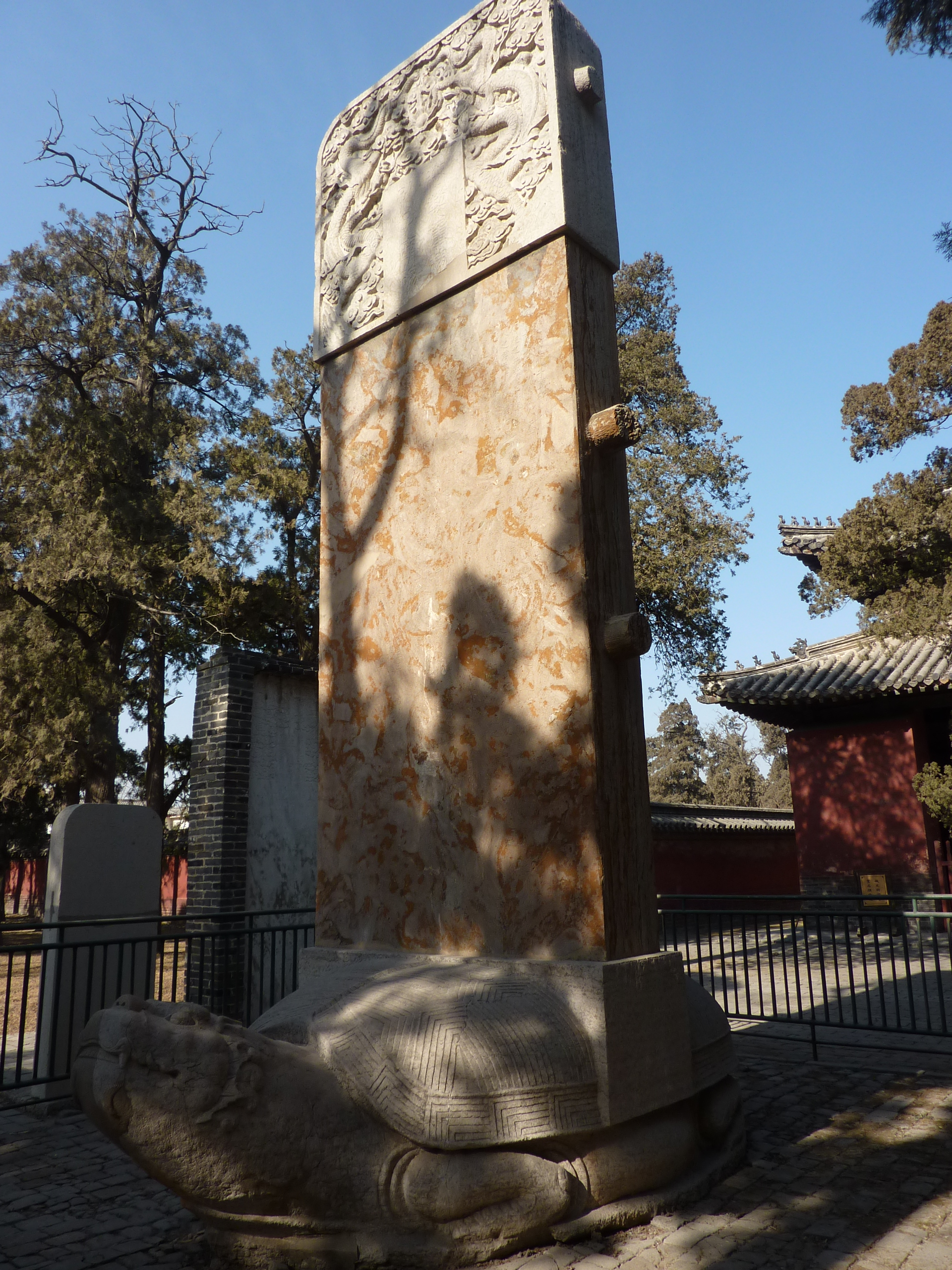 A tortoise-borne stele dated Year 17 of Hongzhi era (1504), with the emperor's inscription regarding the repair of the Temple of Confucius (Kong Miao). The stele is located outdoors (the original pavilion having fallen apart), in front of the western stele pavilion that's in front of the God of Literature Pavilion (奎文阁, Kui Wen Ge) on the grounds of the Temple of Confucius in Qufu.